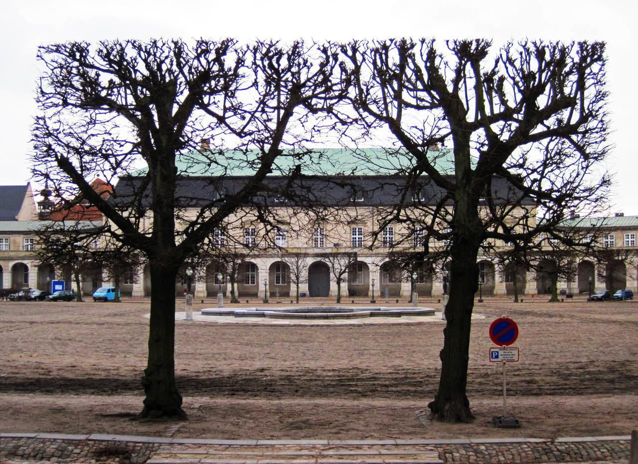 The Royal Stables behind Christiansborg Palace in Copenhagen, Denmark